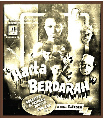 Poster / magazine ad (looks to be the latter) for Harta Berdarah, a 1940 production by Union Films.